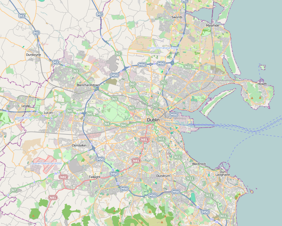 Dublin city location map.